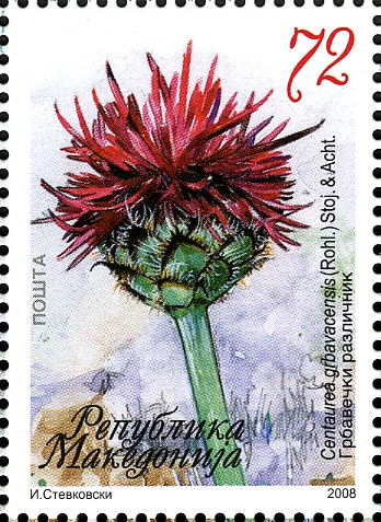 Macedonian stamp showing Centaurea grbavacensis